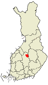 Priskribo Location of Viitasaari, Finland. Made by the uploader; based on template Image:Finnish_municipalities_and_provinces.png by User:Jukka.